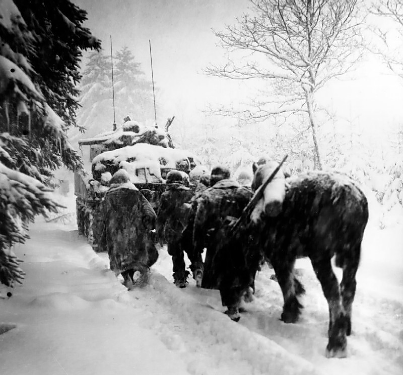 Battle of the Bulge - Troops of the 82nd Airborne Division advance in a snowstorm behind the tank in a move to attack Herresbach, Belgium. 340th Tank Battalion, Headquarters Company, 3rd Battalion, 504th Parachute Regiment, 82nd Airborne Division. 28 Jan 1945